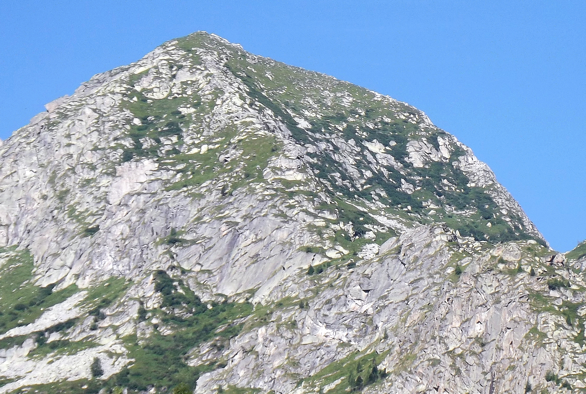 Punta della Vecchia (Alpi Biellesi, Italy): eastern slopes